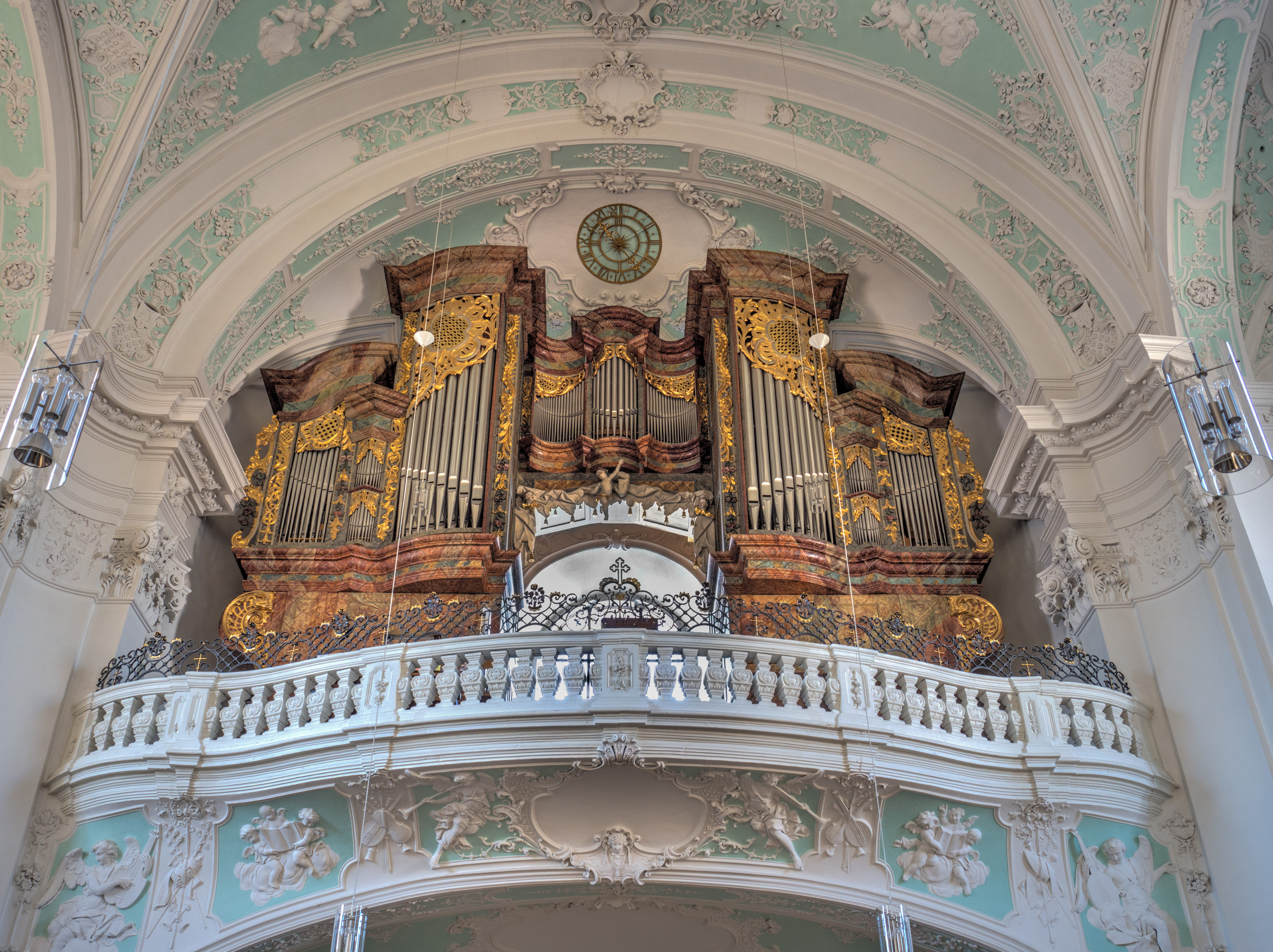 Pipe organ of the Basilika in Gößweinstein